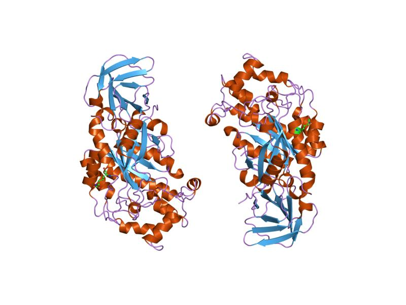 Cartoon representation of the molecular structure of protein registered with 1hl8 code.